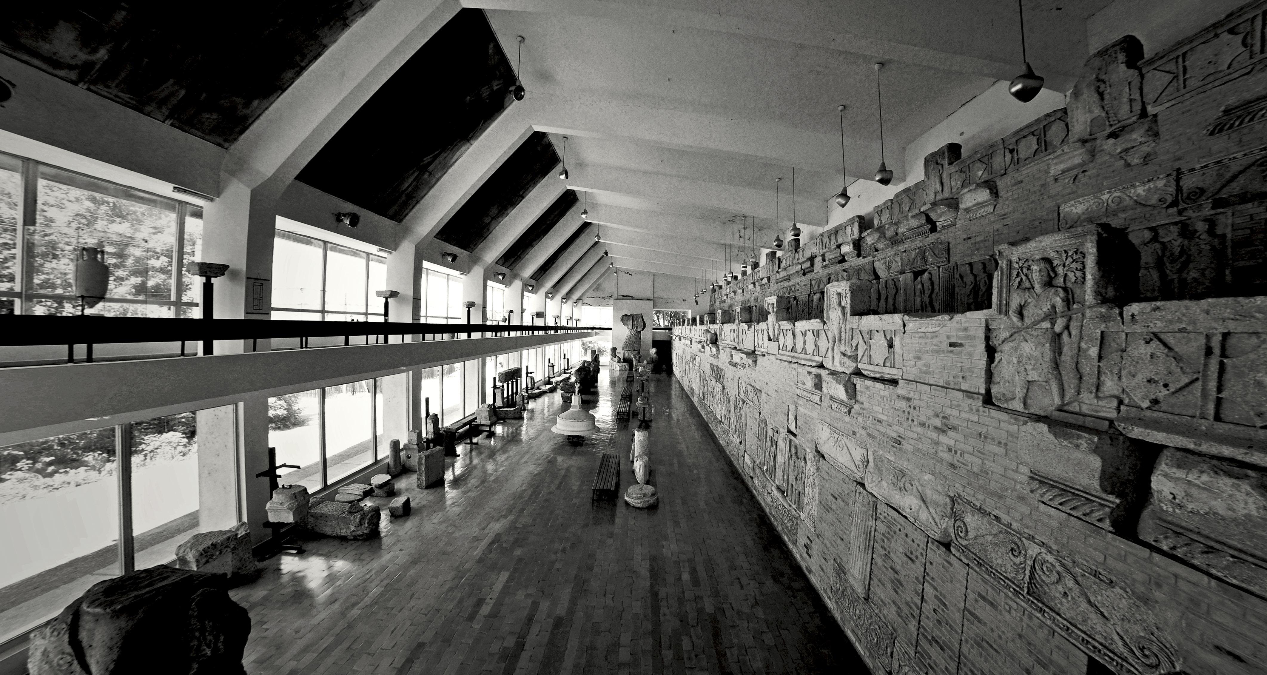 Interior of the Adamclisi Archaelogical Museum lapidarium displaying a large part of the original carved stones and architectural elements from the Tropaeum Traiani monument and from the nearby city of Civitas Tropaensium. Designed like a lapidarium, the museum building (inaugurated in 1977) comprises numerous archaeological vestiges discovered on the premises. Along one side of the museum are on display the metopes, the lower and upper friezes, the pillars, battlements and parapet blocks of the festooned attic style. In the hall centre there is the huge statue of the trophy, the inscription and weapon frieze. The other exhibits include the ceramics collections (Hamangia culture pottery, Gaetic ceramics, Greek, Roman and Byzantine amphorae), lamps, tools, ornaments, aqueducts, sculpture, epigraphic documents. ghidulmuzeelor.cimec.ro/iden.asp?k=246